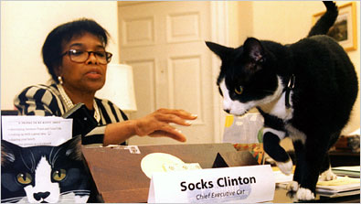 Betty Currie, secretary of Bill Clinton in the White House and Socks, Clinton's cat. The Clintons "gifted" Socks to Currie when they left the White House.